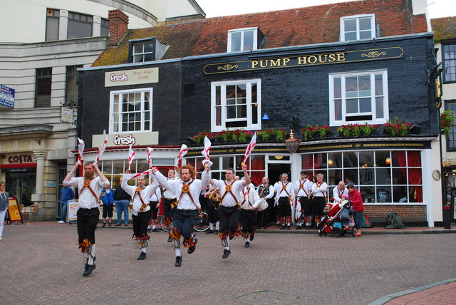 Morris dancers Dancing outside the Pump House in Brighton Lanes